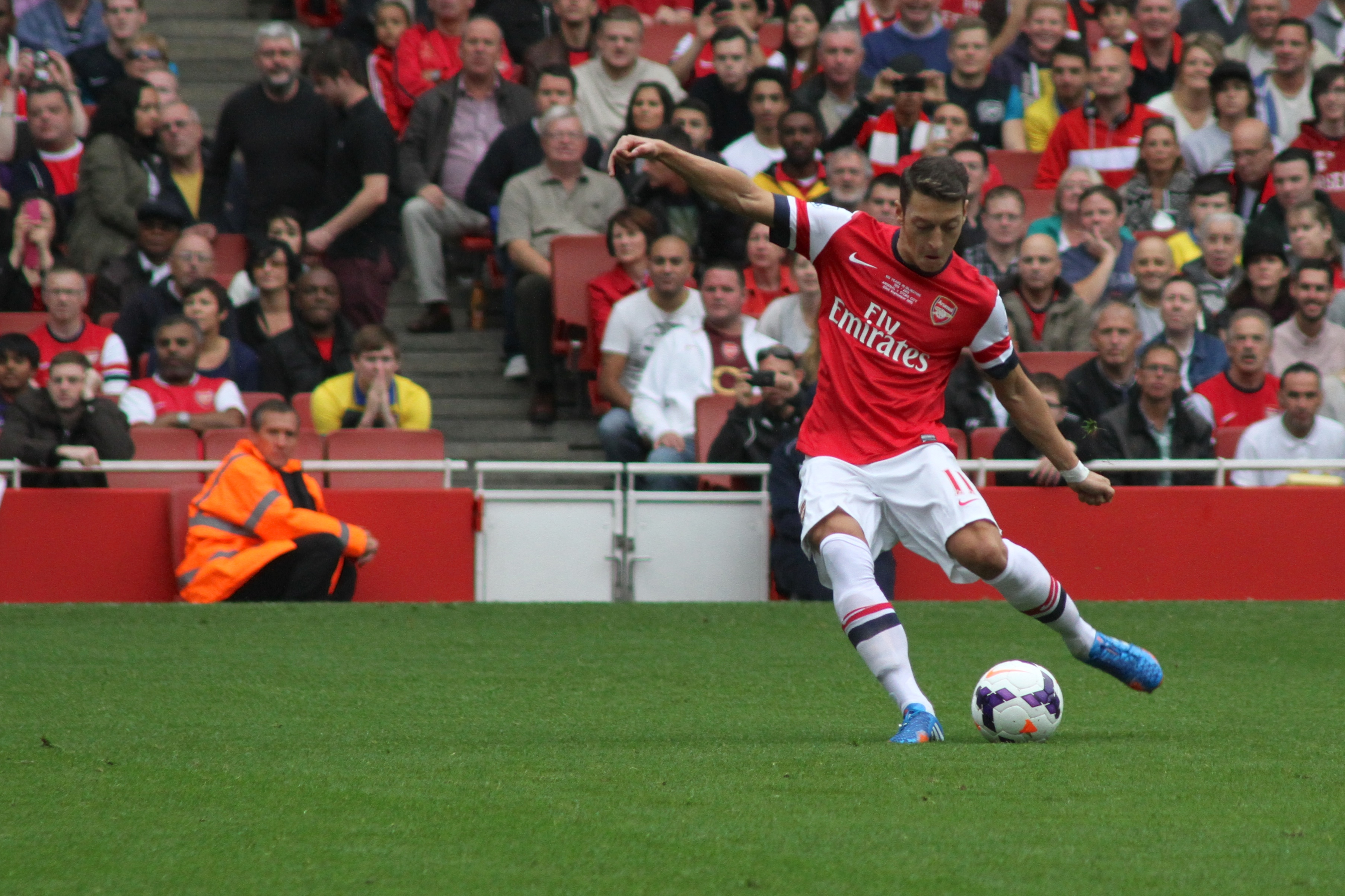 Mesut Özil playing for Arsenal.